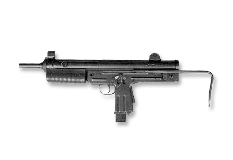 Left side view of the FMK-3 Mod 2 SMG; note collapsed wireframe stock and pistol-grip safety